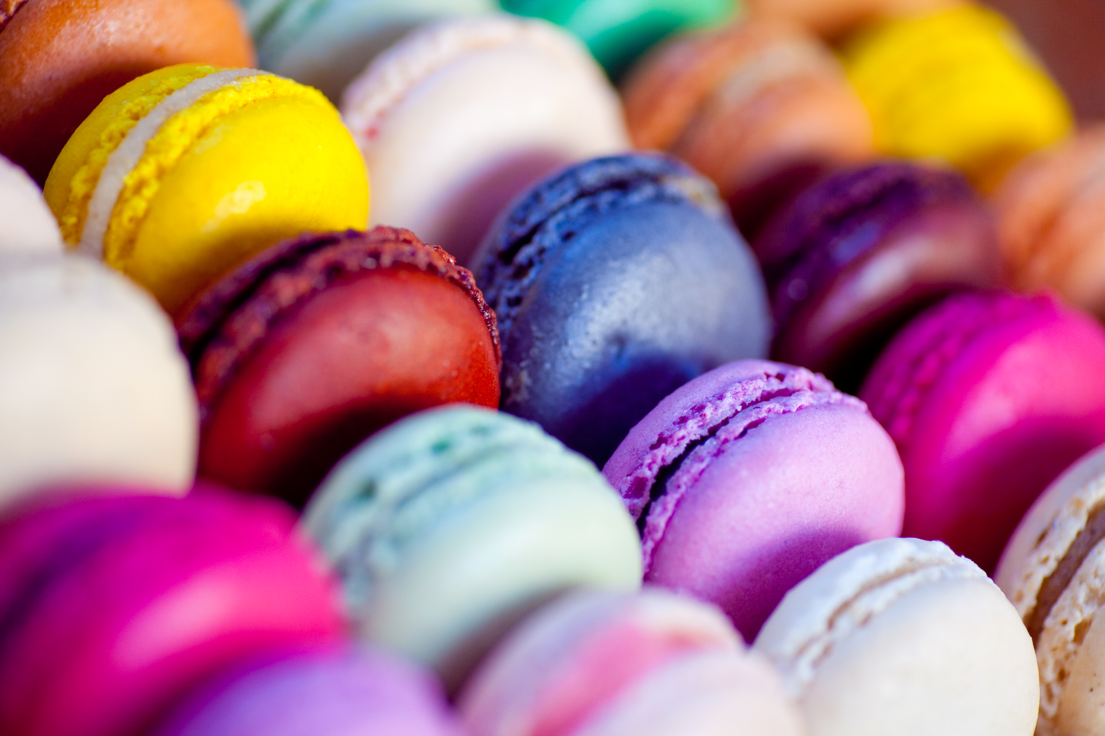 Multi-coloured macarons.